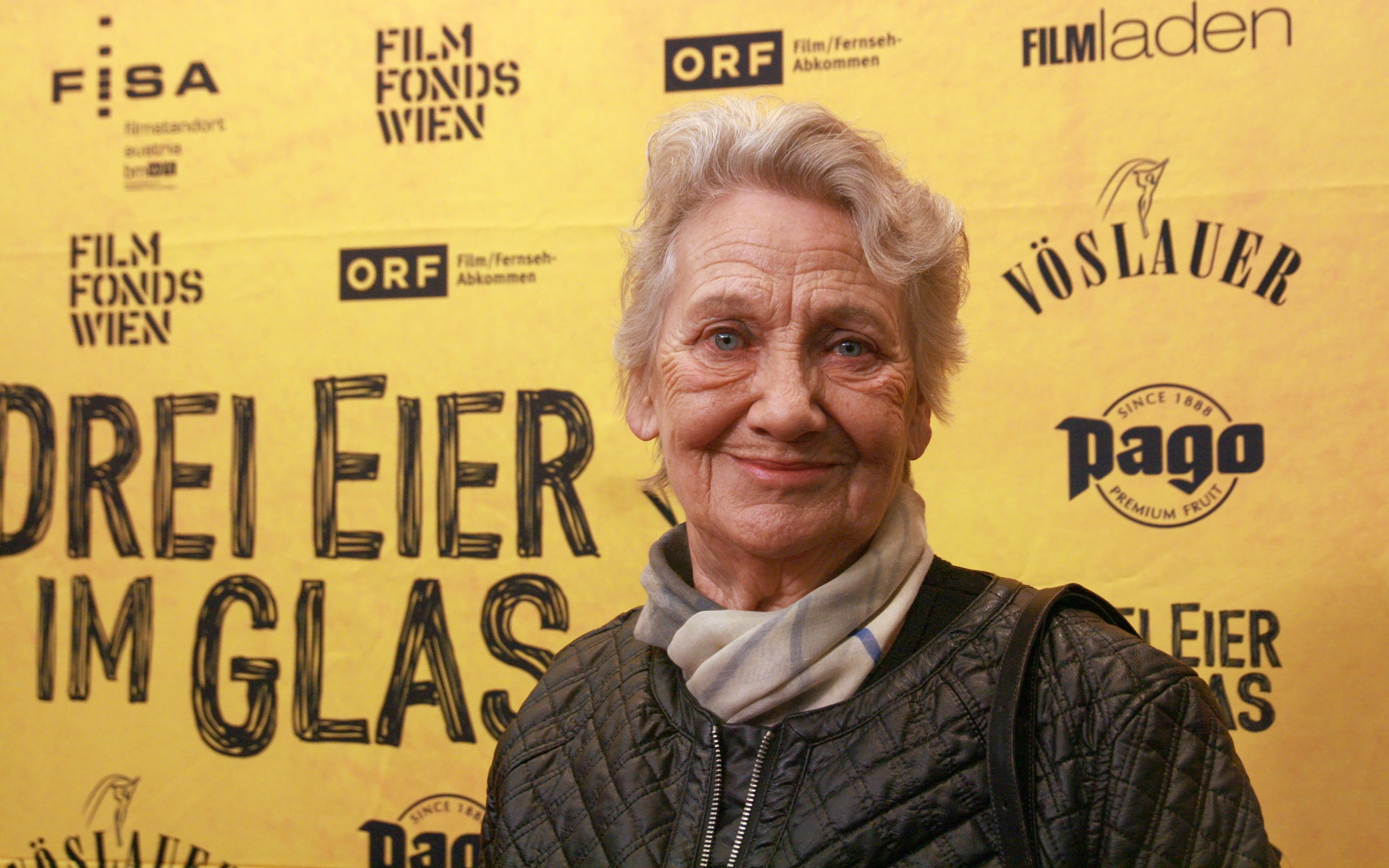 Ingrid Burkhard at the premiere of Drei Eier im Glas at Gartenbaukino in Vienna, Austria.